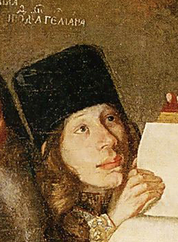 Portrait of Archimandrite German